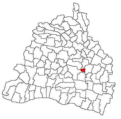 Location of commune in Dolj county, Romania